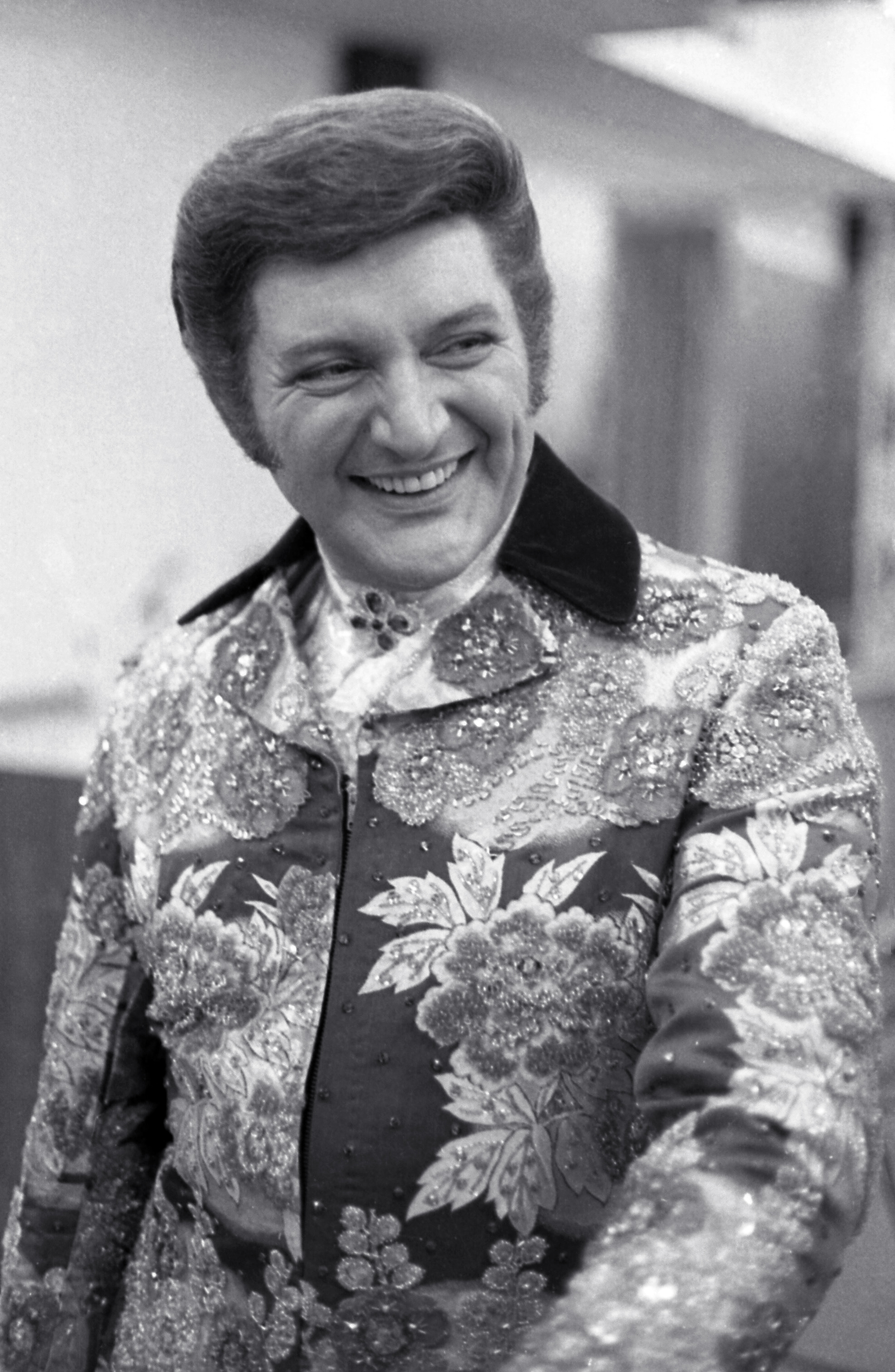 Liberace